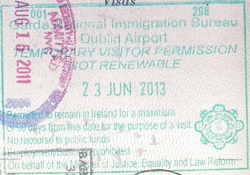 Entry stamp for Ireland in a US passport. No exit stamp is issued.